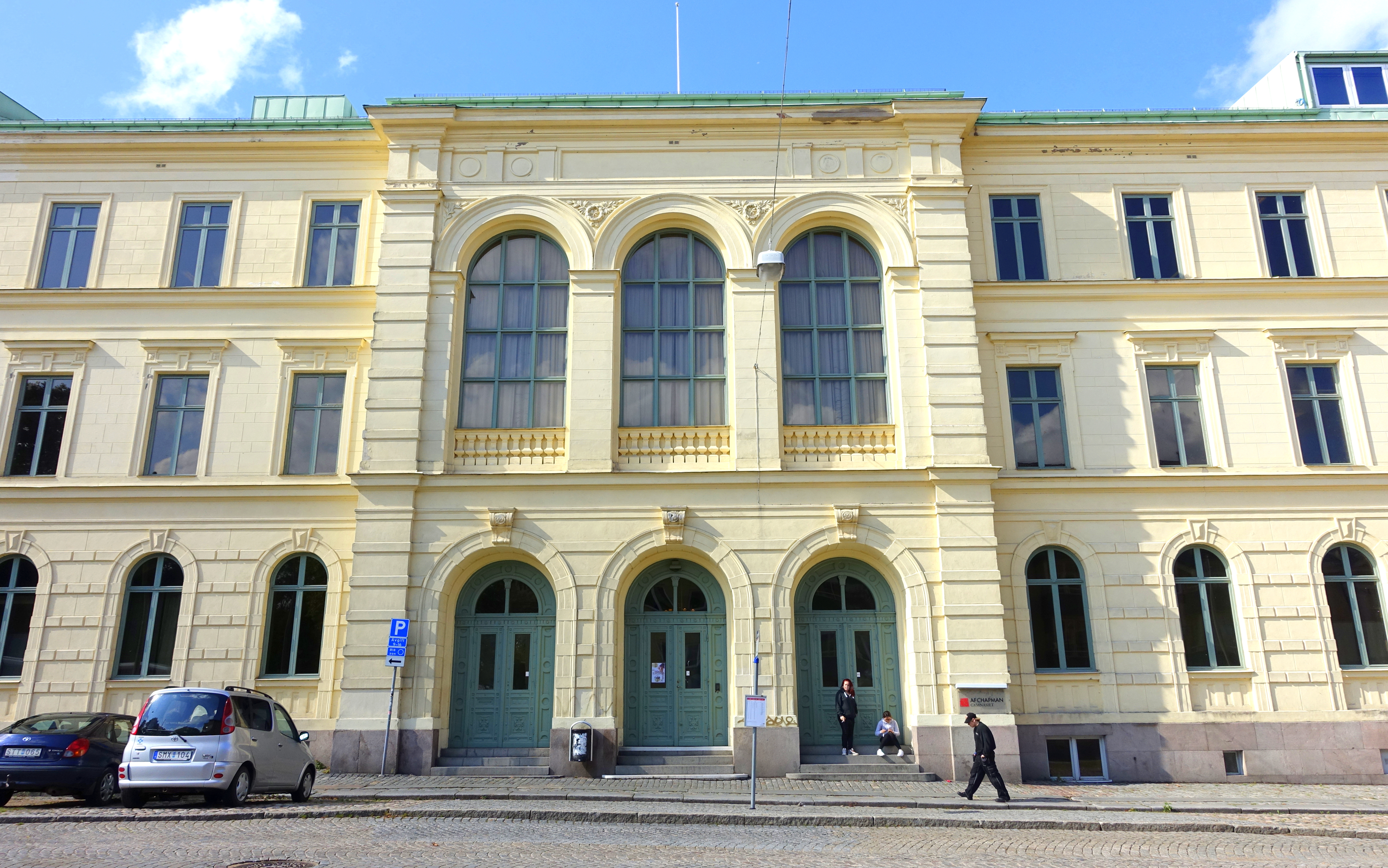 af Chapmangymnasiet - Karlskrona, Sweden.